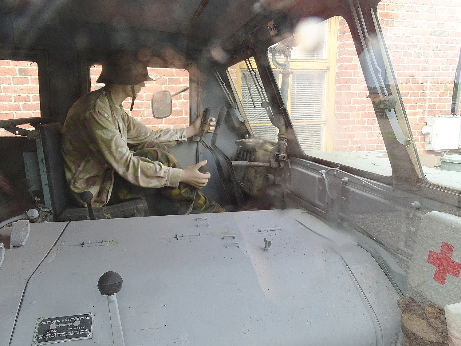 020 - AT-S